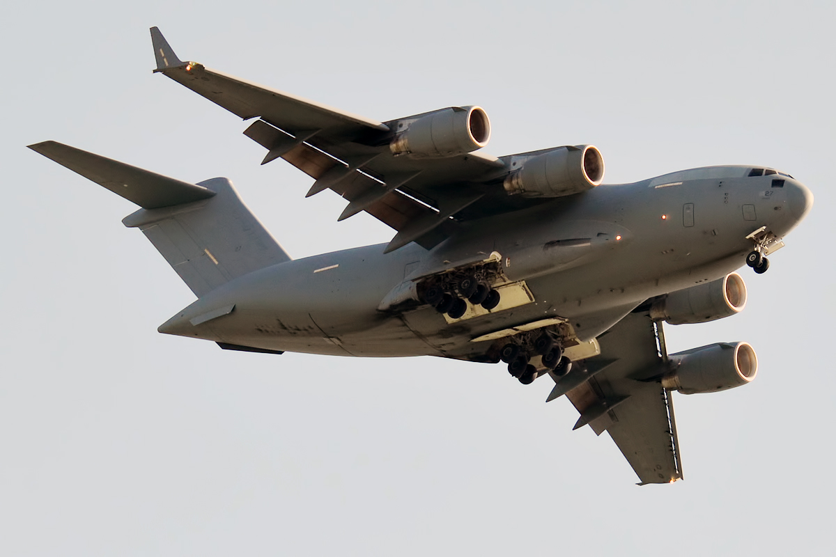 United Arab Emirates Air Force, 1227, Boeing C-17A Globemaster III